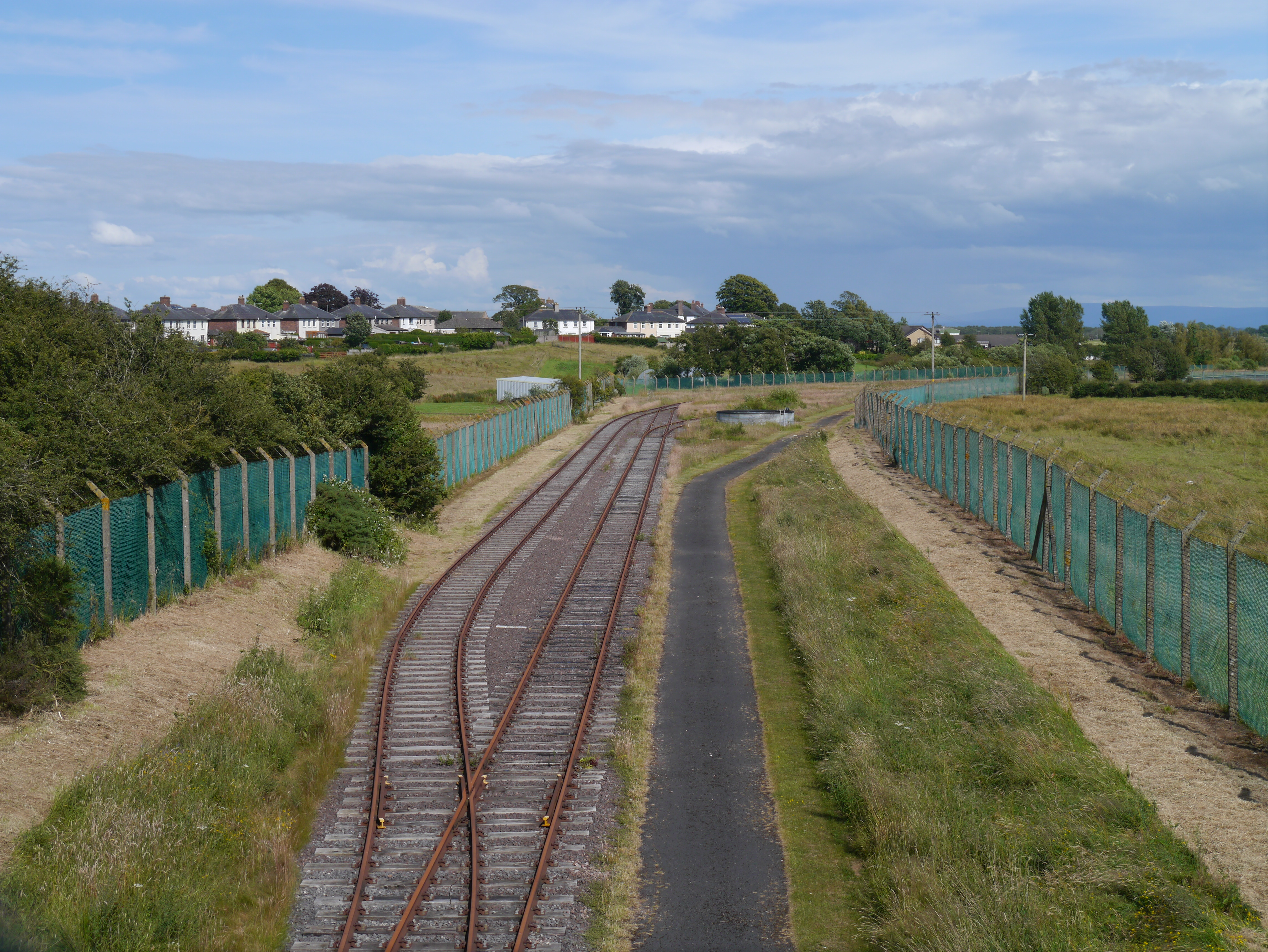 Railway Entrance To Eastriggs Munitions Depot